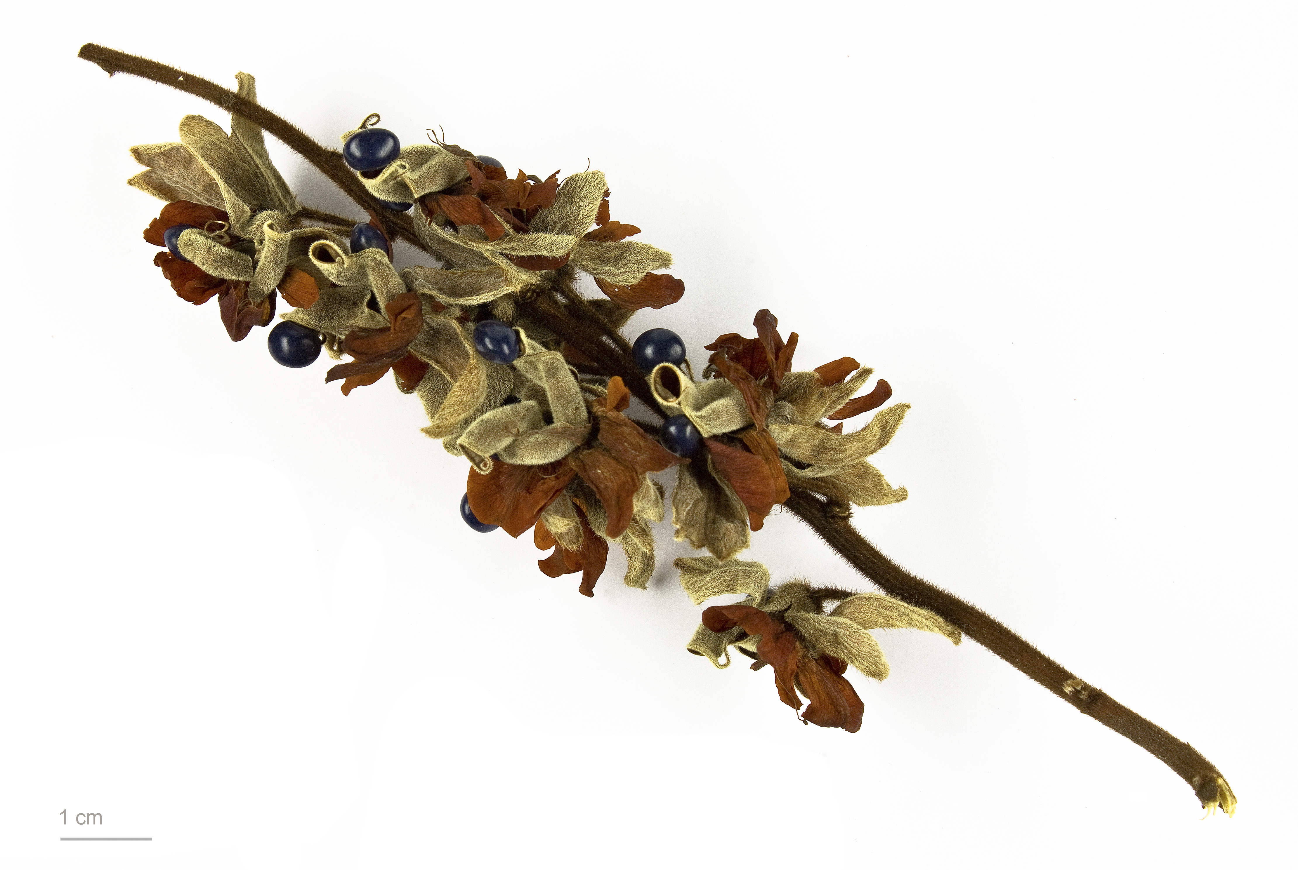 Rhynchosia hirta , fruits and seeds